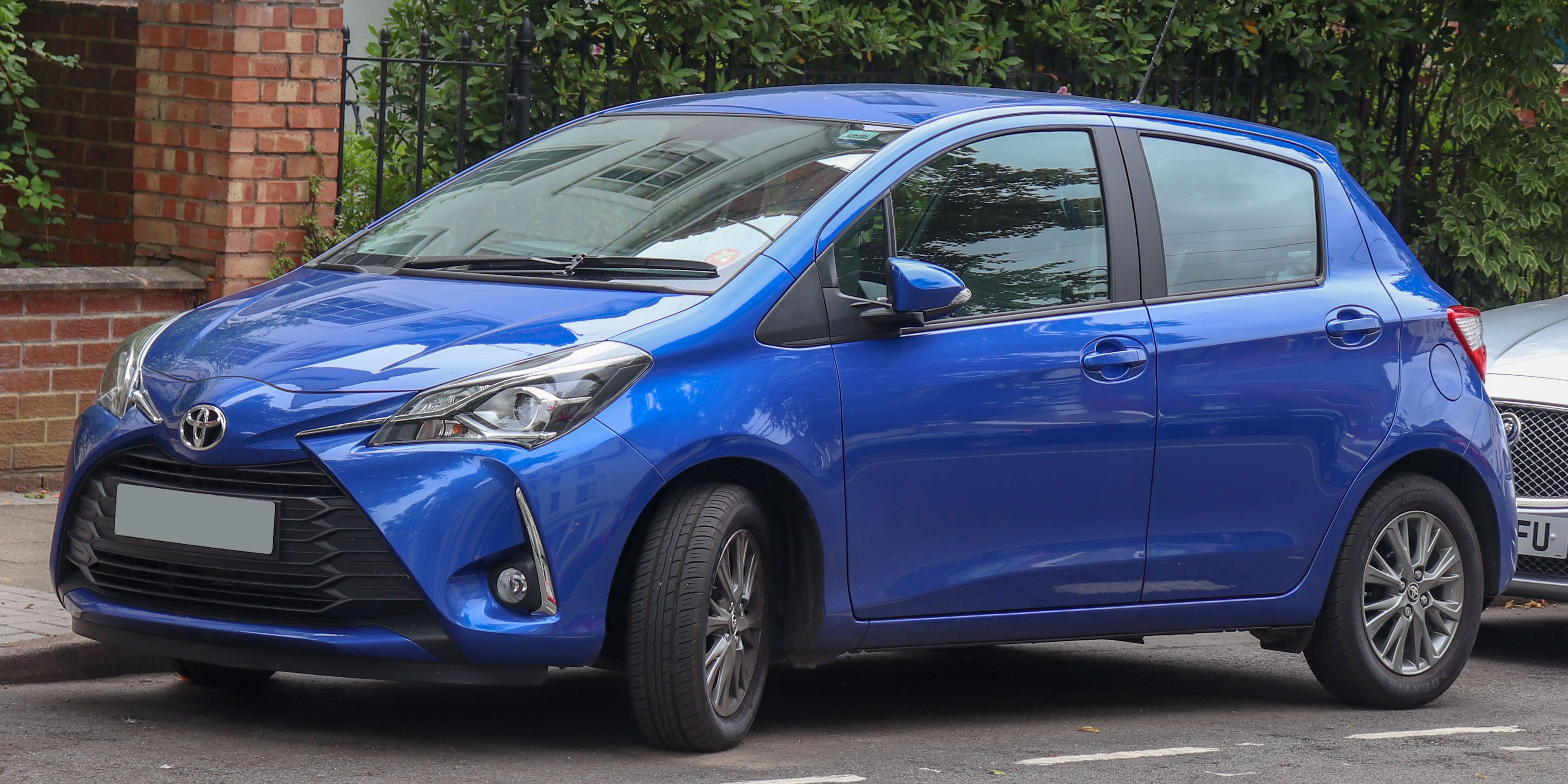 2018 Toyota Yaris Icon VVT-i CVT 1.5